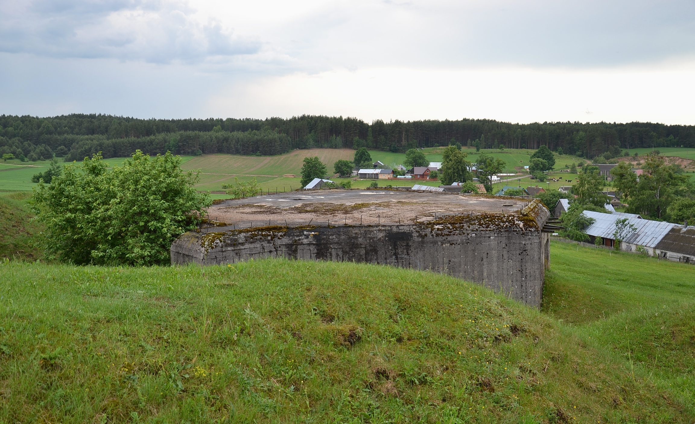 Molotov Line - bunker in Żabickie (Žabickiai, Жабіцкія), Poland